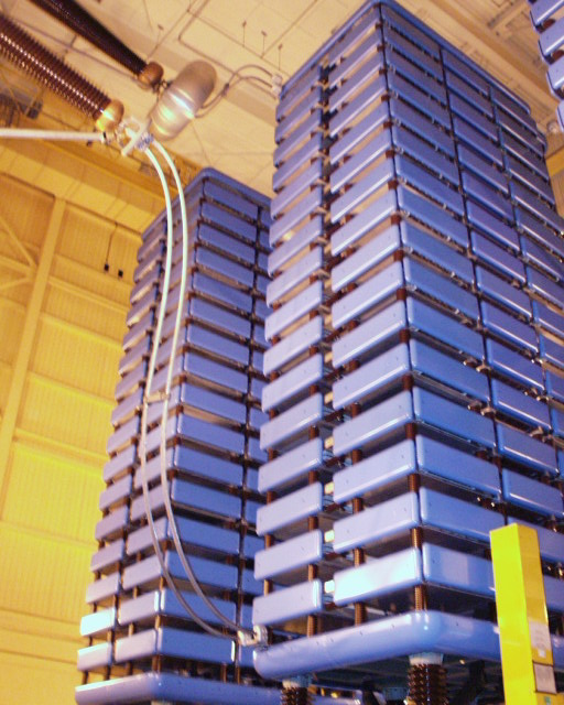 A 2000A 250 kV high voltage direct current (HVDC) thyristor valve at Manitoba Hydro's Henday converter station. Photo taken April 2001. Valve rating 2000 A, 250 kV dc.